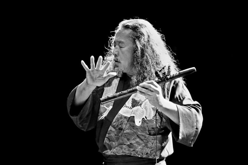 Kitaro with flute